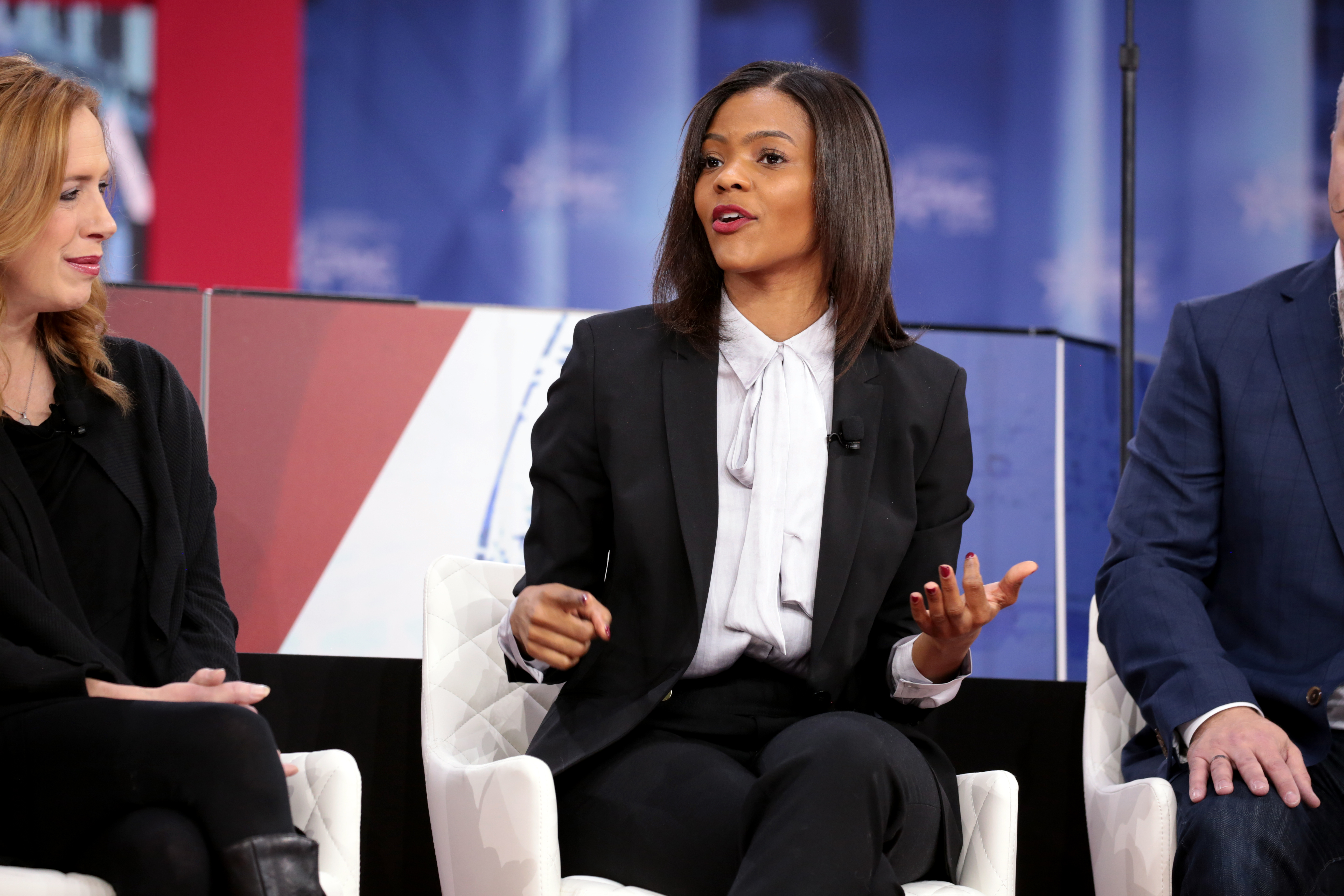 Candace Owens speaking at the 2018 Conservative Political Action Conference (CPAC) in National Harbor, Maryland.